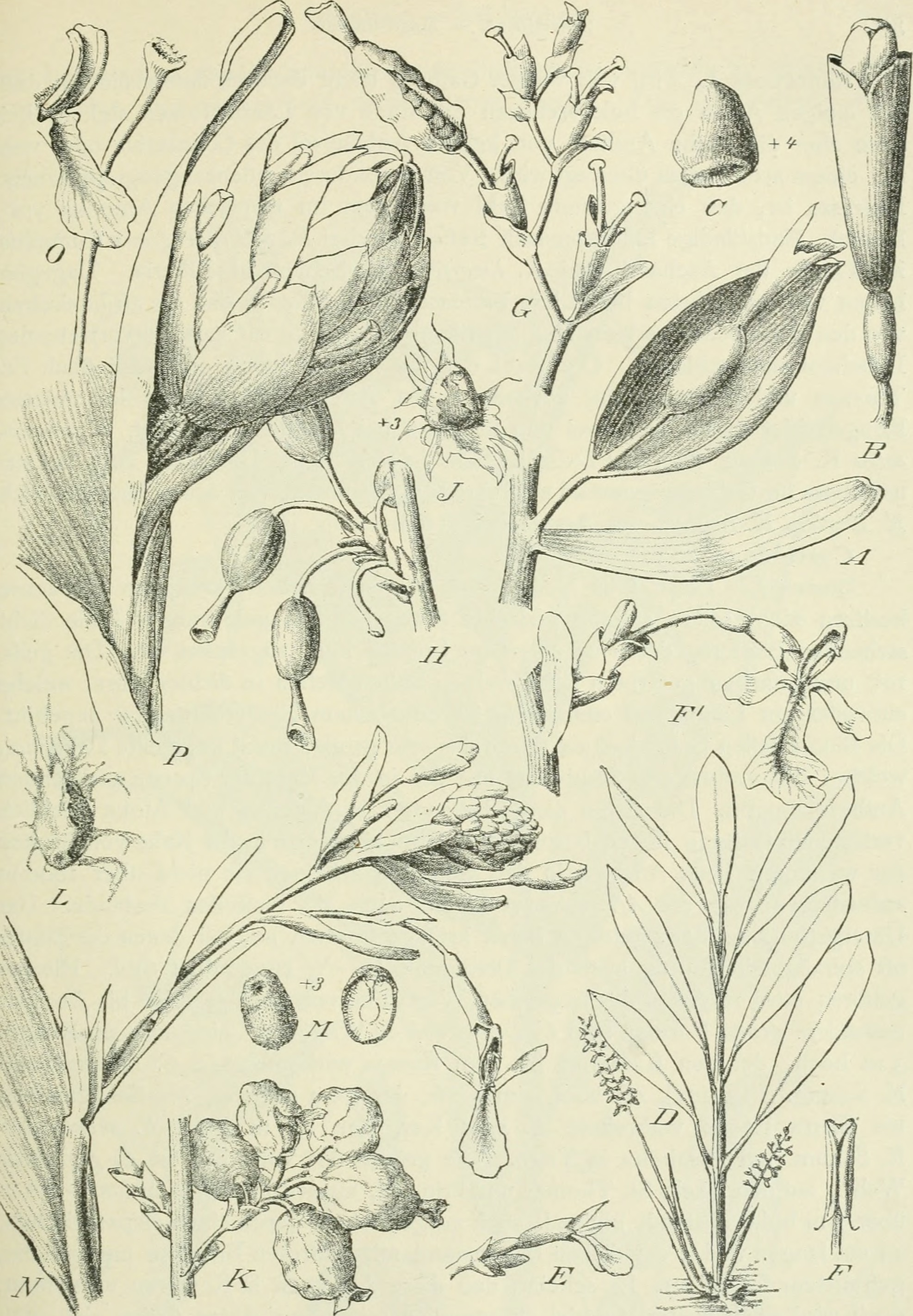 Title: Die Pflanzenwelt Afrikas, insbesondere seiner tropischen Gebiete : Grundzge der Pflanzenverbreitung im Afrika und die Charakterpflanzen Afrikas Year: 1910 (1910s) Authors: Engler, Adolf, 1844-1930 Subjects: Botany Publisher: Leipzig : W. Engelman Text Appearing Before Image: ' Text Appearing After Image: Fig. 274- Renealmia. A—C R. brasiliensis K. Schiim. (Rio de Janeiro, Minas Geraes\ A Blüte mit Vor- und Tragblatt; B Knospe; C Same. D — F^. macrocolea K. Schum. D Habitus, verkleinert; E Blüte; F Staubblatt. F^ G R. cincinnata (K. Schum.) Bak. (Kamerun, Gabun). H, y R. Dewewrei Dur. et de Wild. Lukolela im Kongogebiet'. H Frucht; jf Same. K—M R. occidentalis (Swartz) Sweet Westindien, Brit. Guiana, Columbien,'. Frucht und Same. jV, 0 R. racemosa (L.) A. Rieh. (Antillen). N Inflorescenz; 0 Staubblatt mit Labellum. F. R. strobi- lifera Poepp. et Endl. ^Columbien, Costa Rica, Venezuela). — Nach K. SoHUM.^NN.